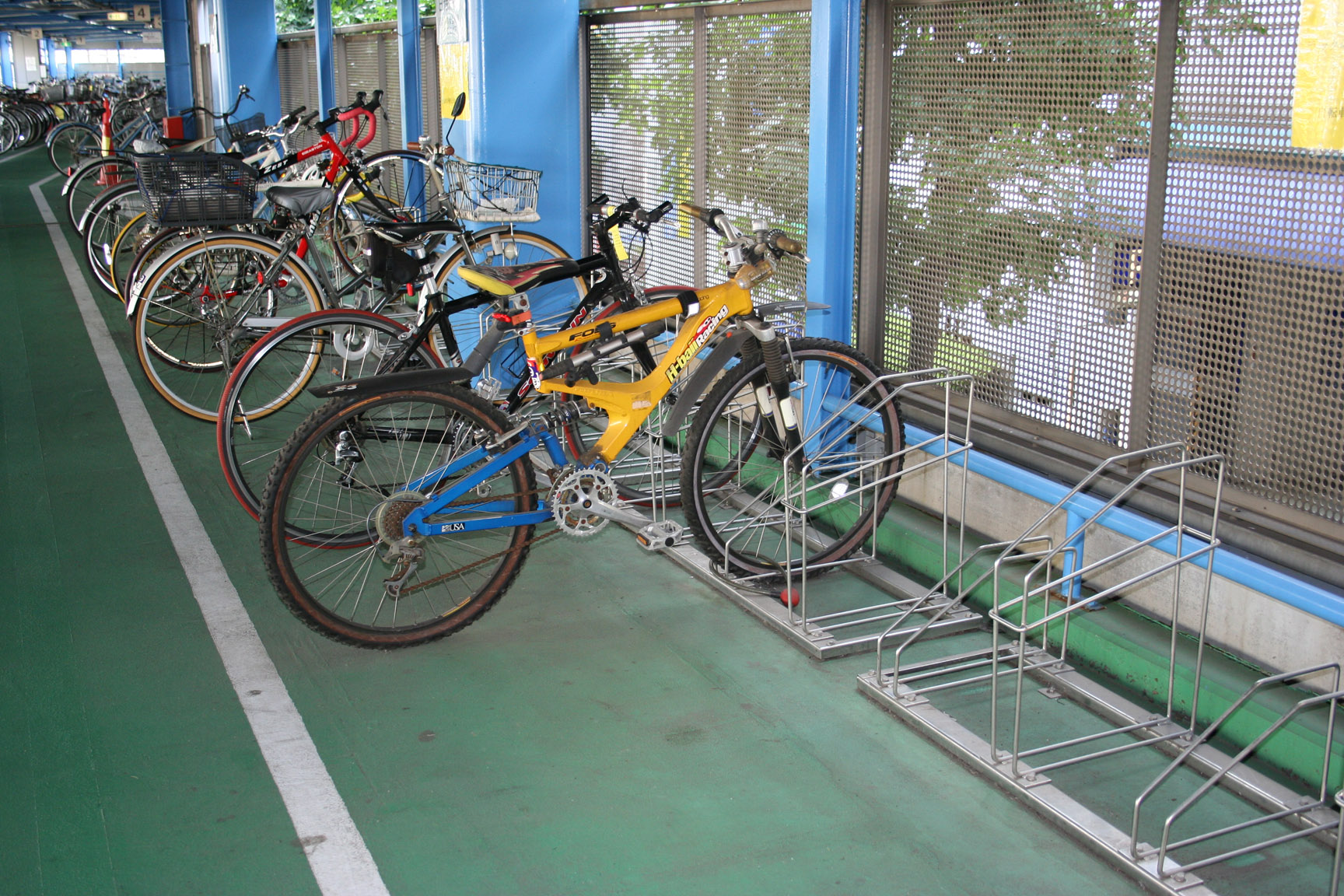 Bicycle pool with rack, in Metropolitan Plaza, 1 Chome Nishi-ikebukuro, Toshima-ku, Tokyo, Japan.